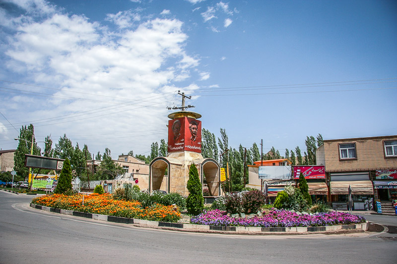 میدان معلم در طالقان عکس: امیررضا توسلی